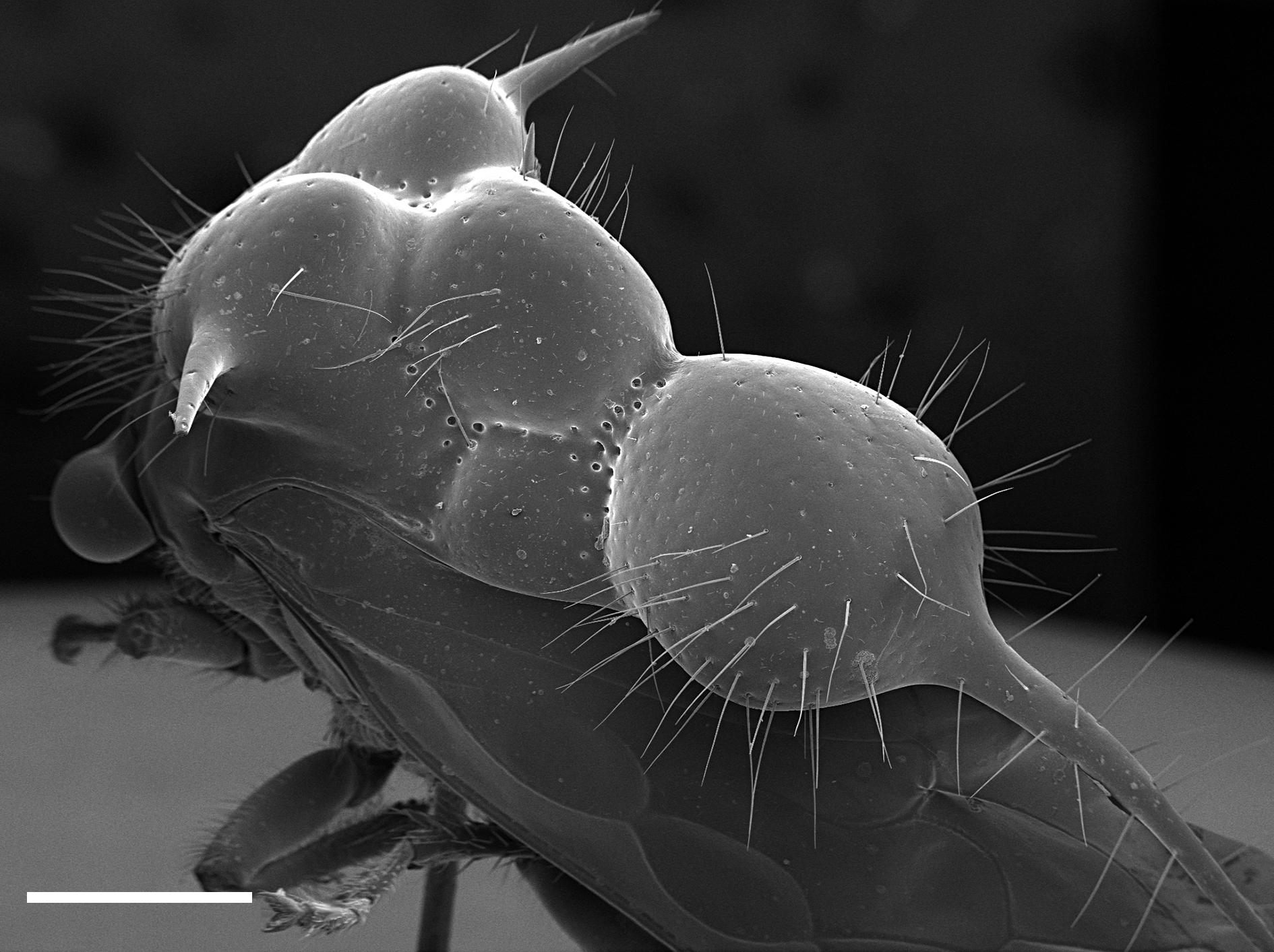 Antonae guttipes Walker, 1858, treehopper (Membracidae, Smiliinae); Scanning electron microscopic image, sputtered with gold, scale bar 1 mm.